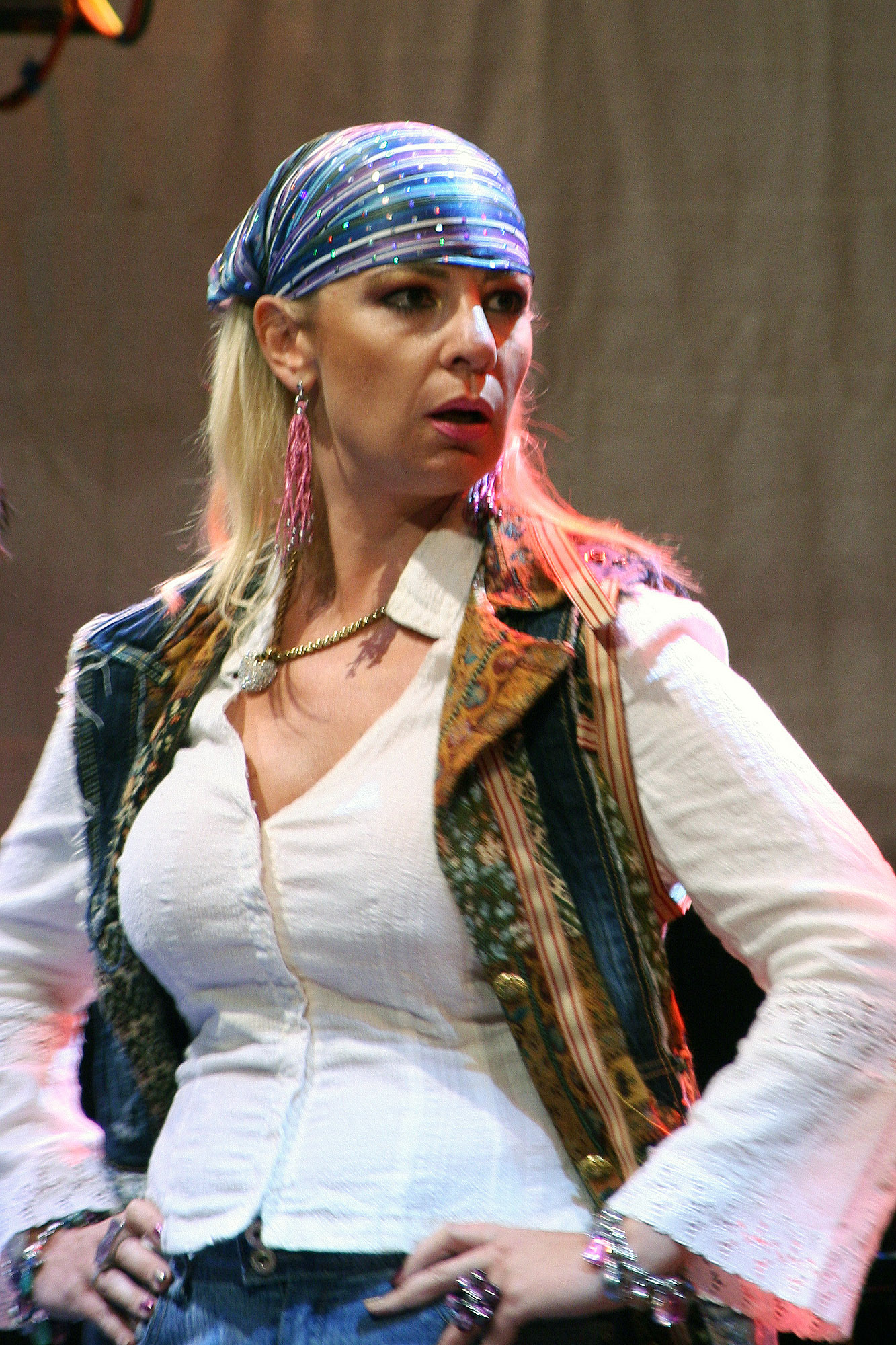 Bulgarian actress and singer Nona Yotova - Bansko Jazz Festival 13 August 2007